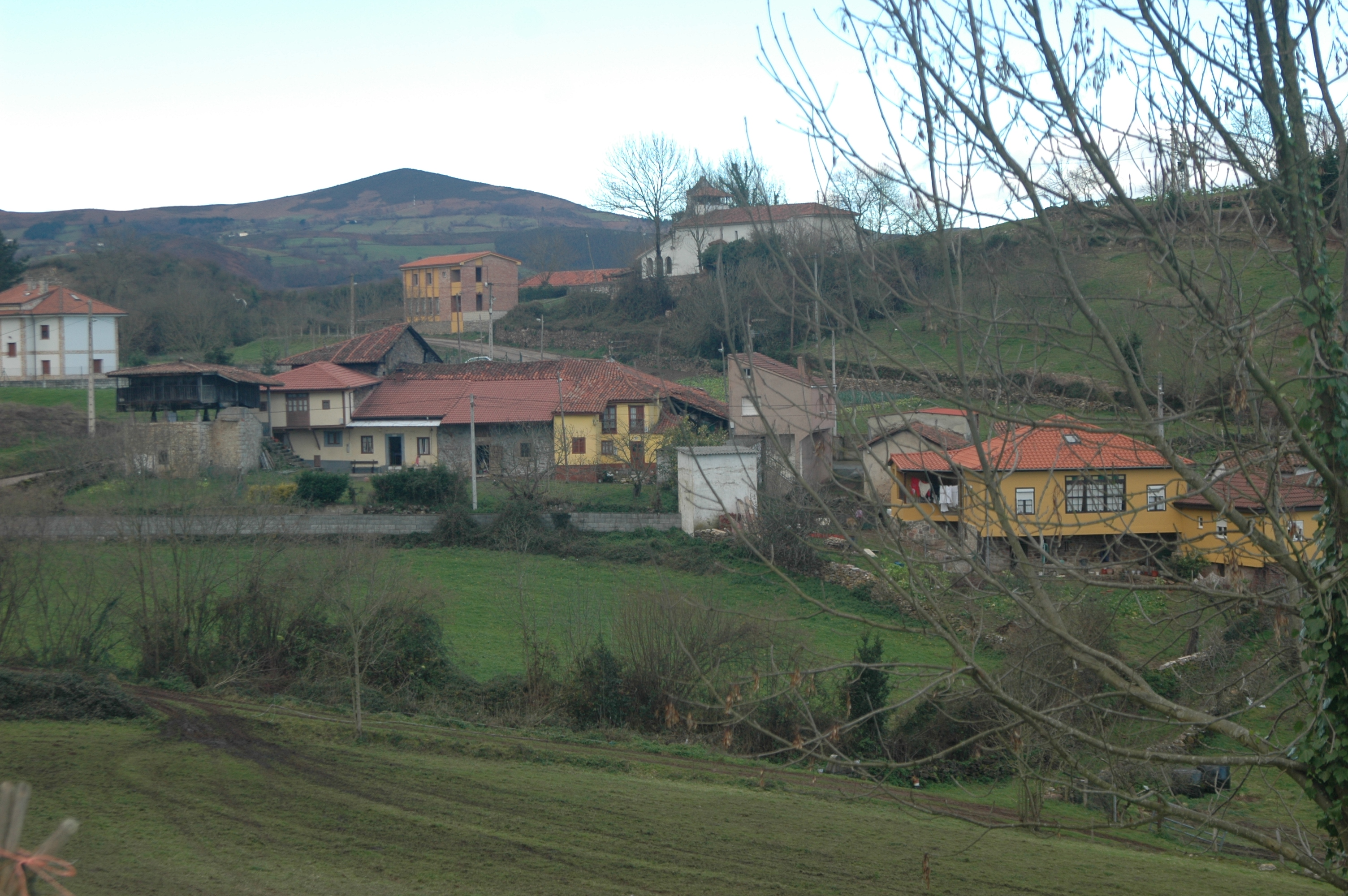 Vista parcial del pueblu de Rañeces